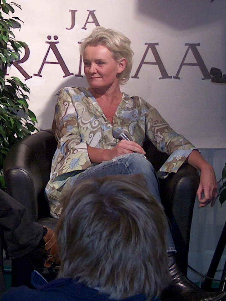 Eva Dahlgren at the Helsinki Book Fair in 2004